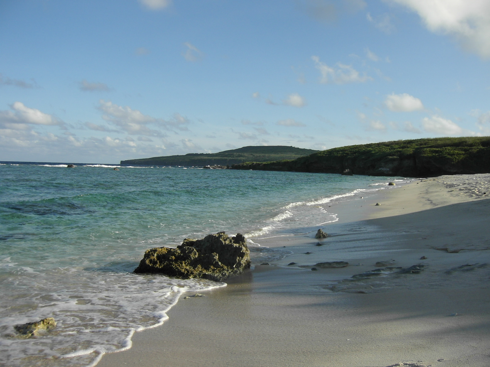 Unai Dankulo beach on the east side of Tinian Island